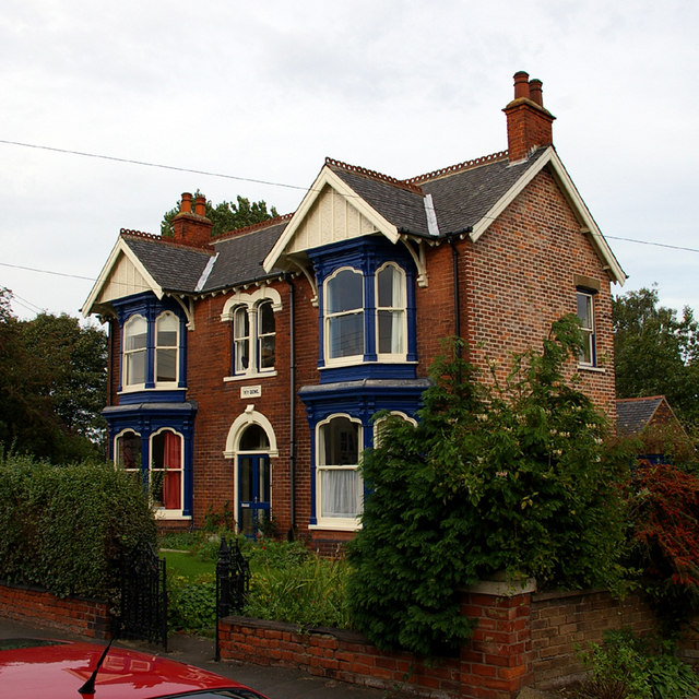 Ivy Dene. Ivy Dene situated on North Street is a good example of Victorian domestic architecture which appears to have escaped "improvement".